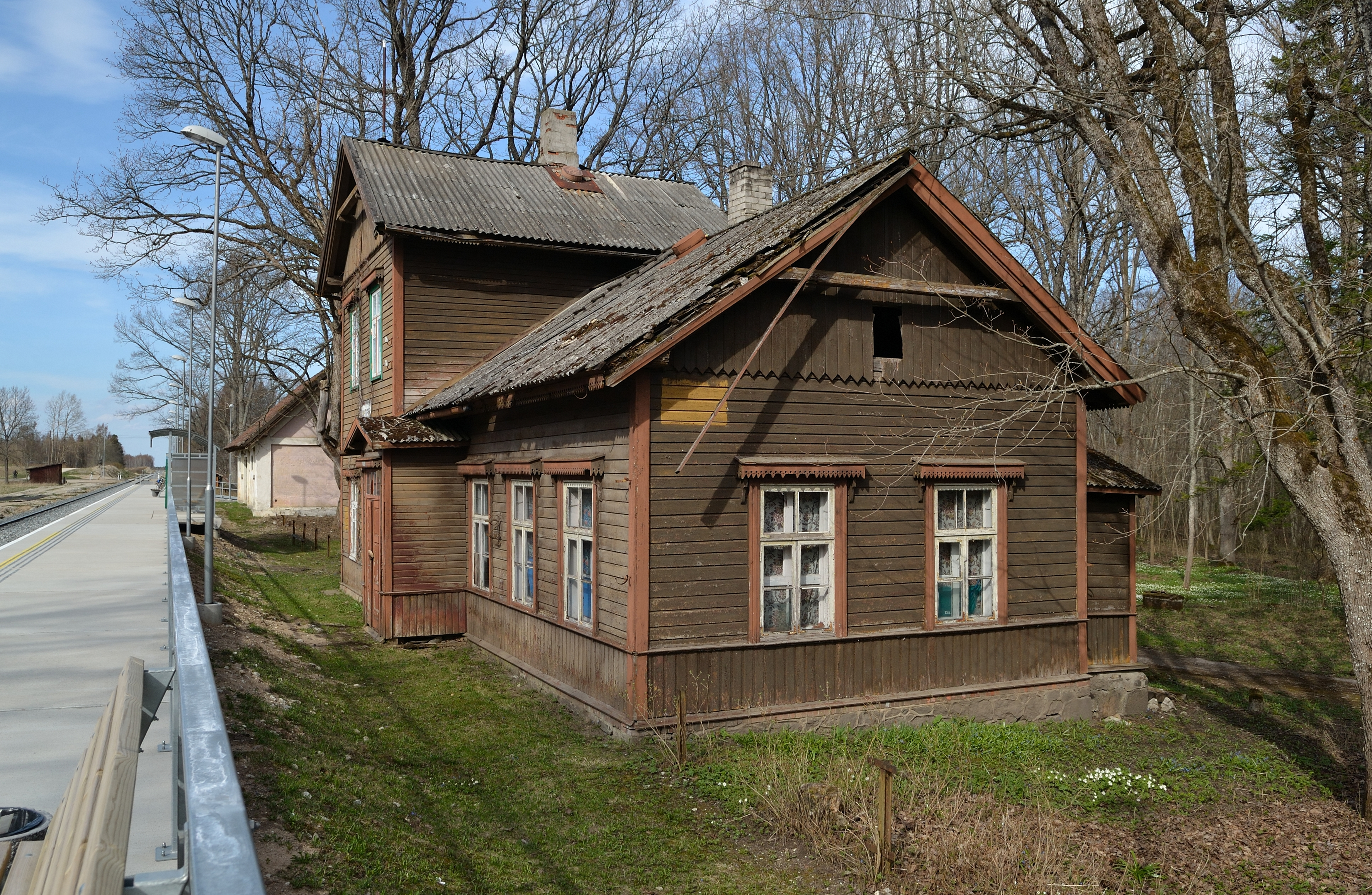 Olustvere station main building